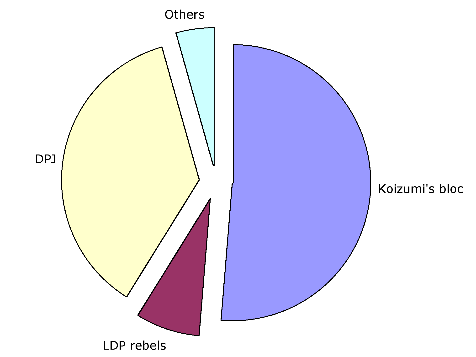 Japanese general election, 2005